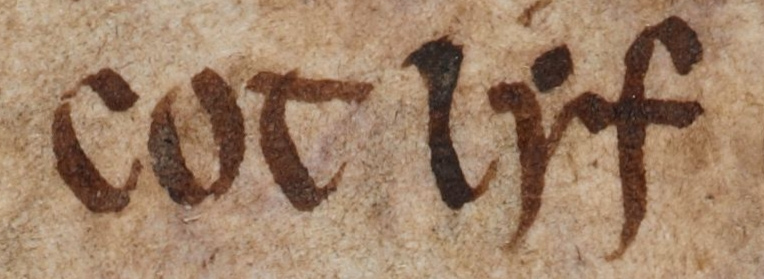 cot lyf, cotlyf (a small village, cottage); from the King Alfred’s Old English Version of Augustine’s Soliloquies. (see transcript at the Website of the Faculty of Creative and Critical Studies, University of British Columbia)